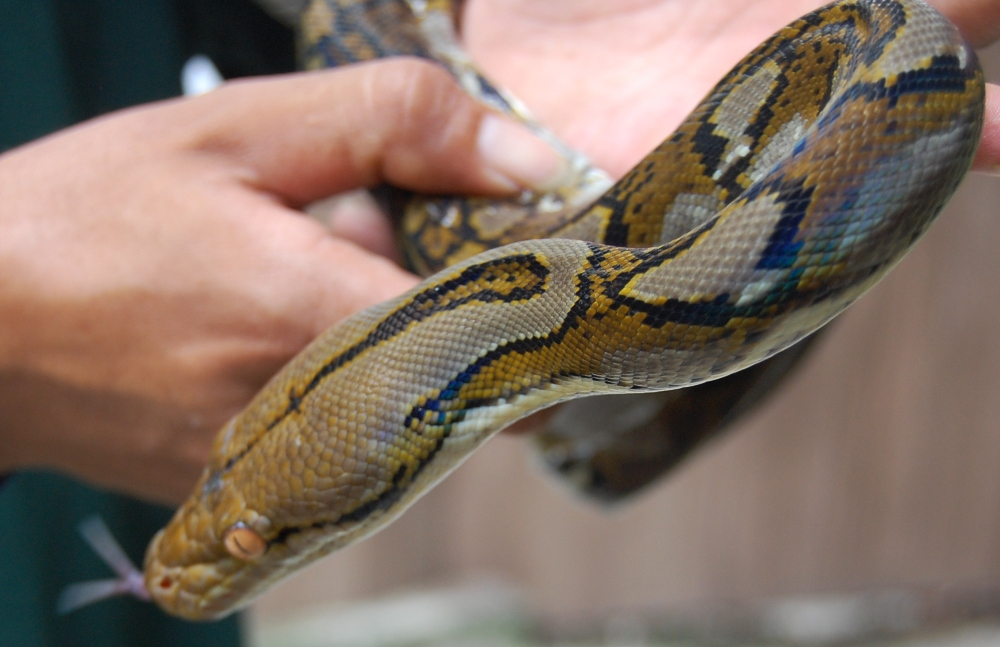 the green connection aquarium, kota kinabalu, sabah, malaysia, reticulated python, Python reticulatus